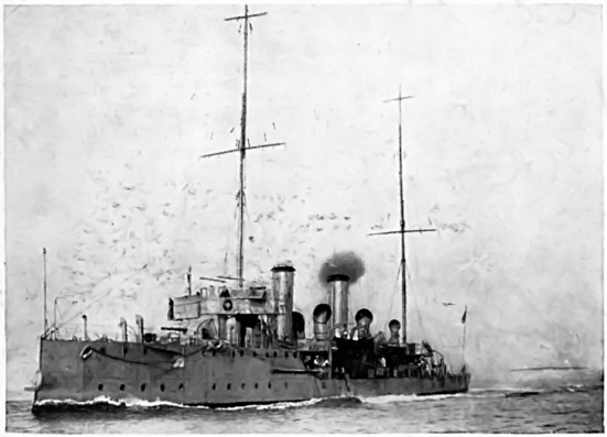 "The "Niger," a torpedo-gunboat of 810 tons, built in 1892, converted to a minesweeper in 1909, was torpedoed by a German submarine while lying off Deal about noon on the 11th, and foundered. The Admiralty stated: "All the officers and 77 of the men were saved; two of the men are severely and two slightly injured. It is thought there was no loss of life."—[Photo. by L.N.A.]"